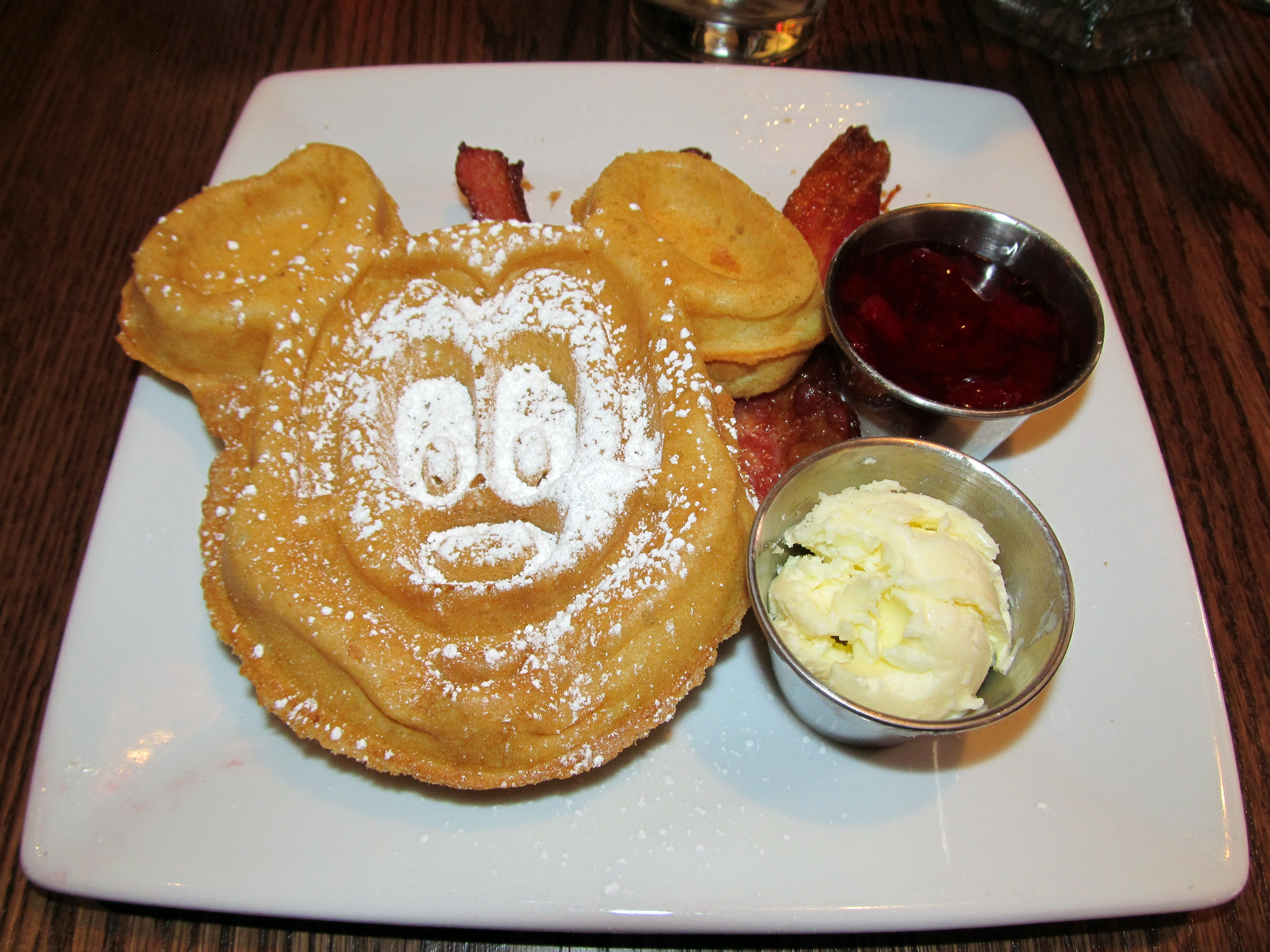 In the Carnation Café, Todd and I both had a breakfast of a Mickey waffle with bacon.